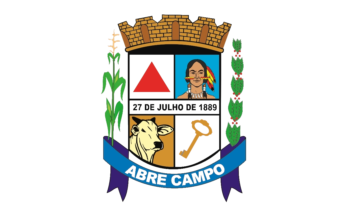 Flag of Abre Campo, a municipality of the Brazilian state of Minas Gerais